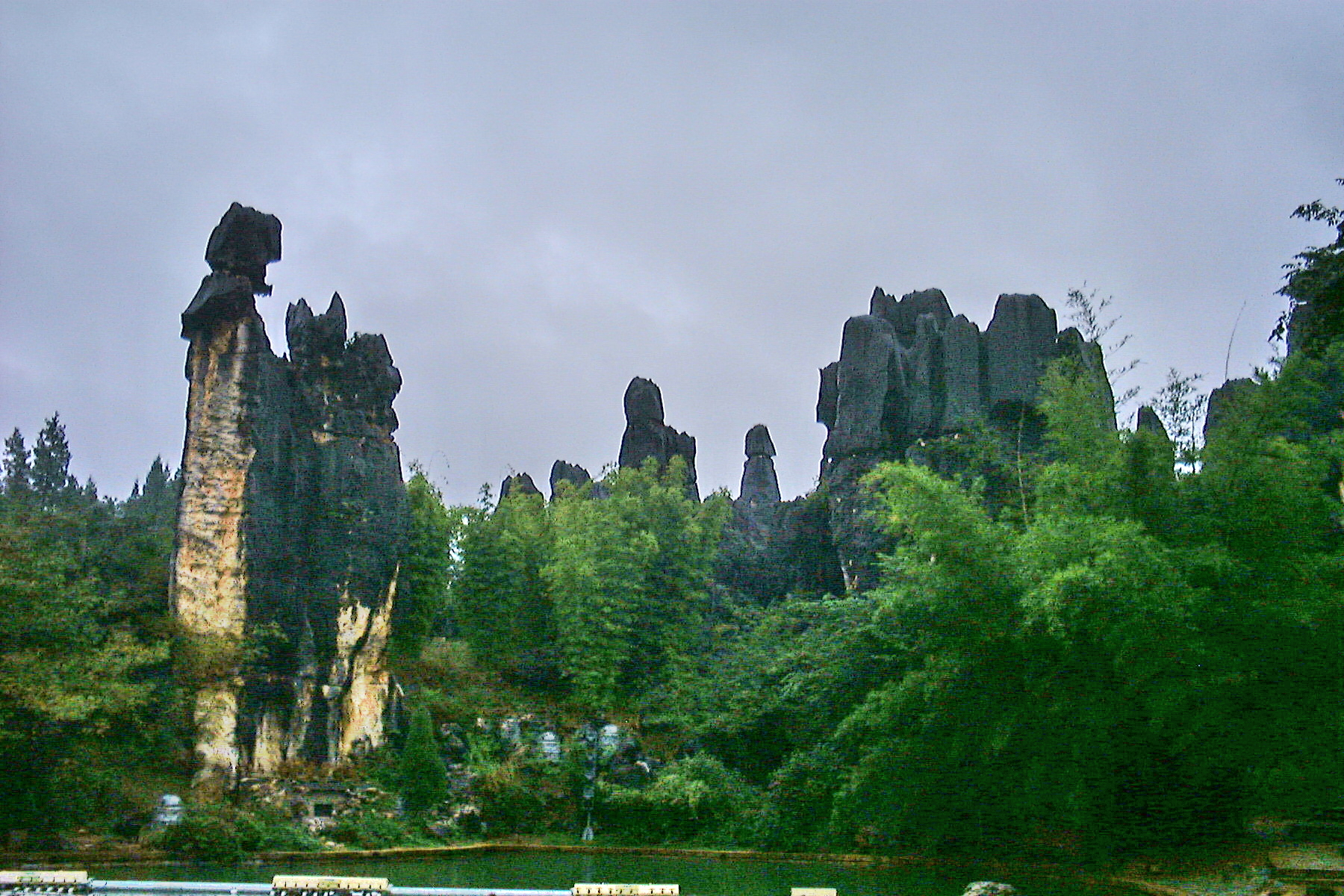 Ashima rock; Stone Forest, Shilin county, Yunnan province, China